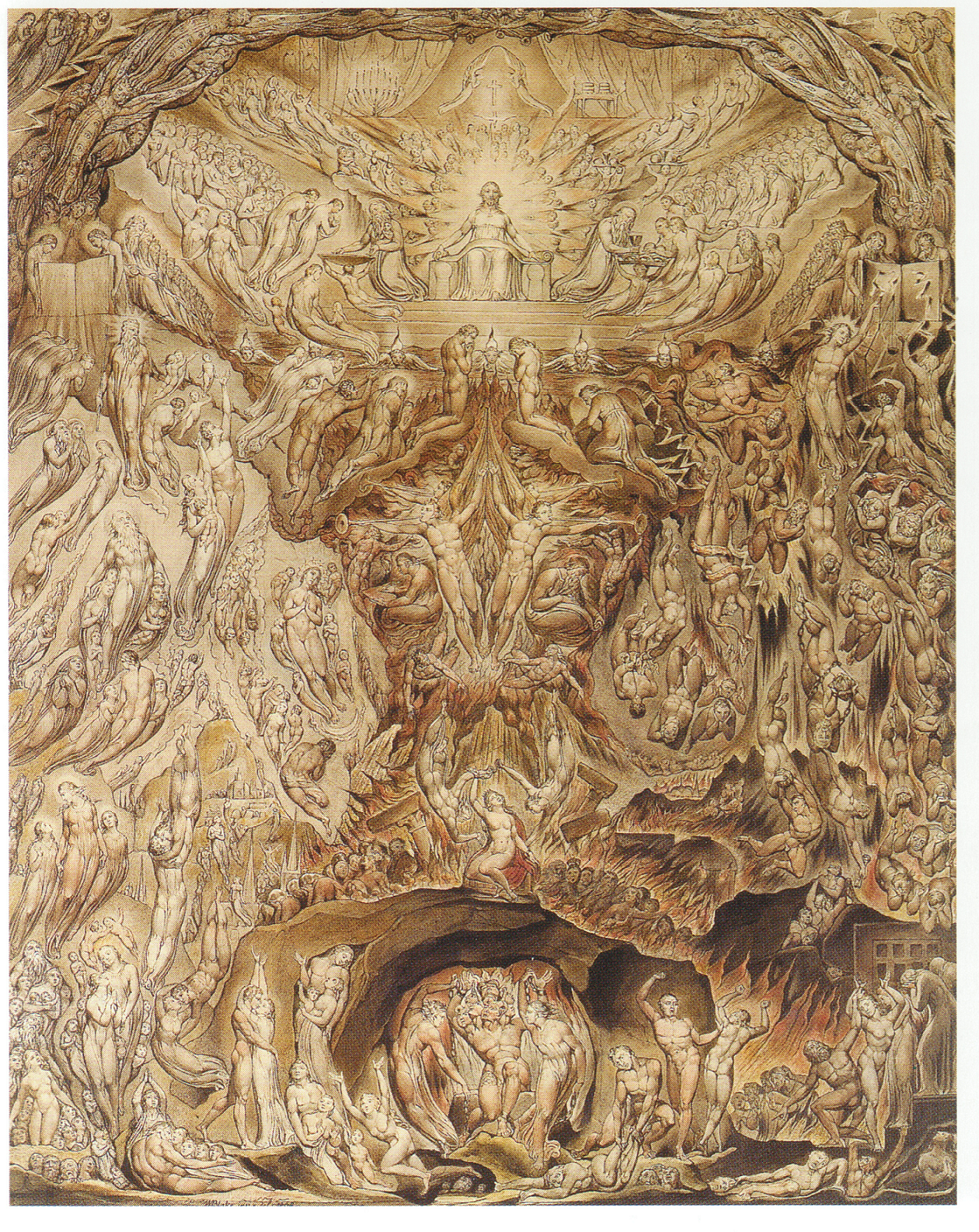 Pen and watercolour of William Blake's A Vision of the Last Judgment, 1808, 51x39.5 cm (Butlin #642), painted for the Countess Egremont.